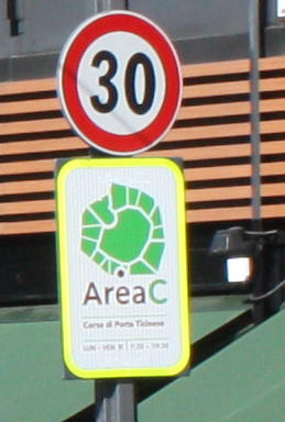 from File:Milan Area C Porta Ticinese gate.JPG. "Area C" sign at Porta Ticinese gate, Milan, Italy.